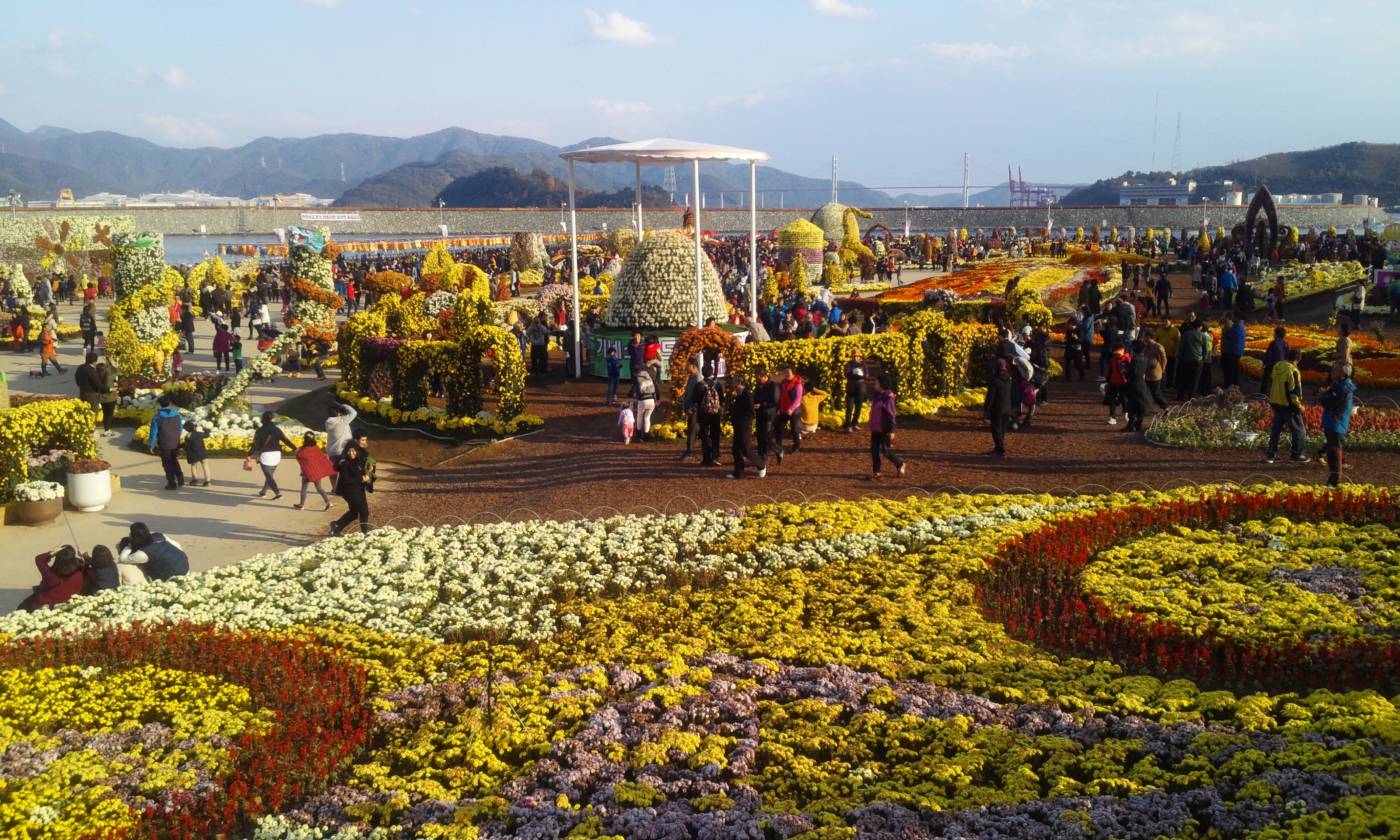 This picture was taken on November 2nd, 2014 during Gagopa Chrysanthemum Festival in Changwon, South Korea.